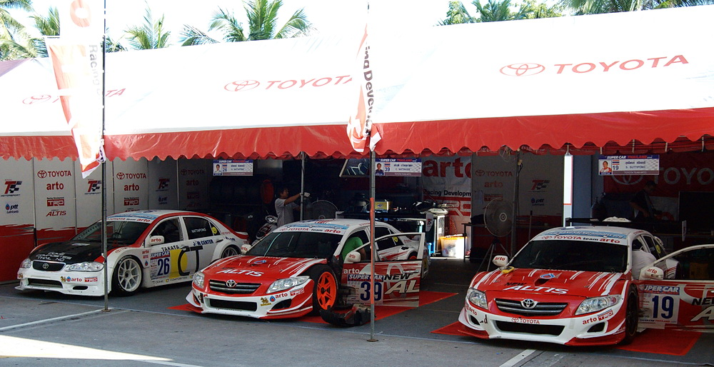 Toyota Corolla Altis (E120) in the Thai Super Car championship, Bangsaen Speed Festival 2008